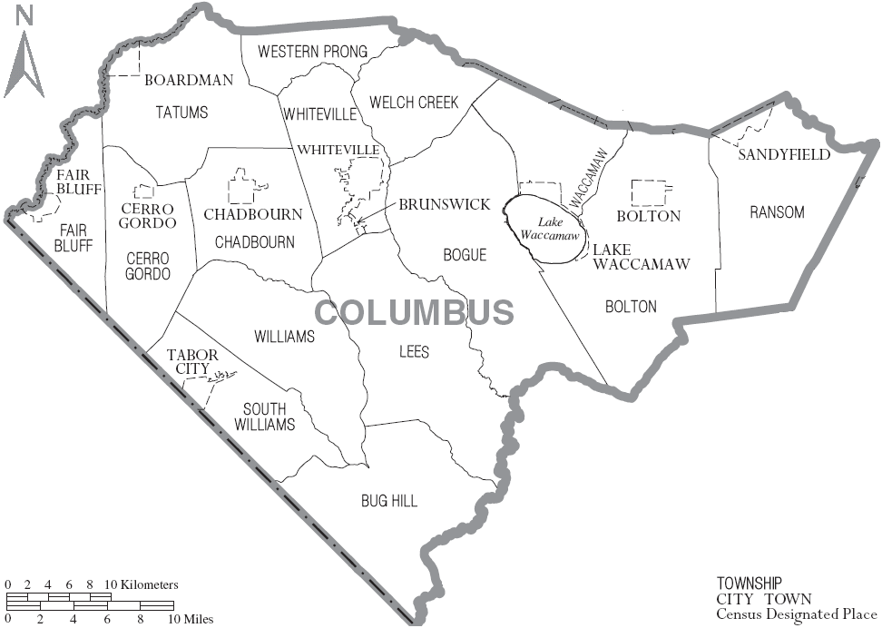 Map of Columbus County, North Carolina, United States with township and municipal boundaries